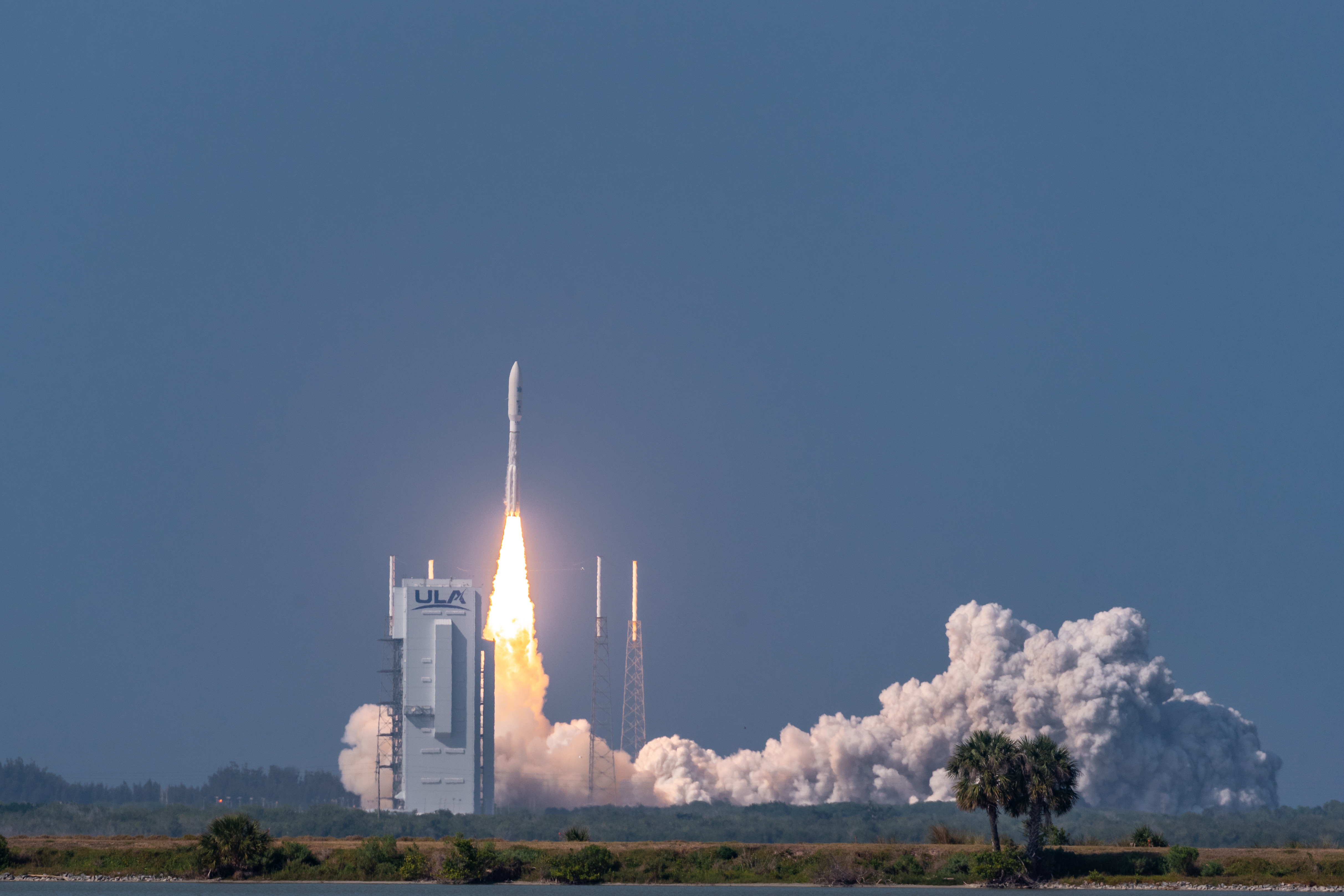 An Atlas V 551 rocket successfully launches from Space Launch Complex-41 at Cape Canaveral Air Force Station, Fla., March 26, 2020. The launch of AEHF-6, a sophisticated communications relay satellite, is the first Department of Defense payload launched for the United States Space Force.